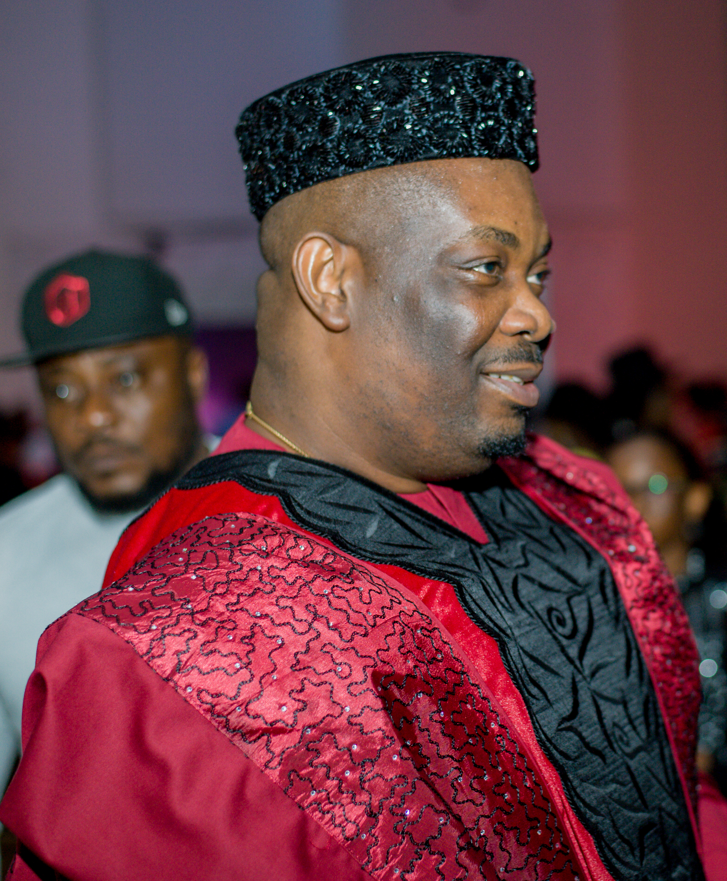 Pictures from AMVCA 2020